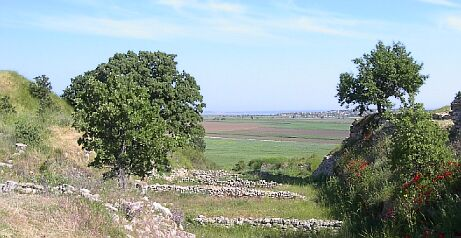 The view from Hisarlık across the plain of Ilium to the Aegean Sea. The supposed site of Troy.